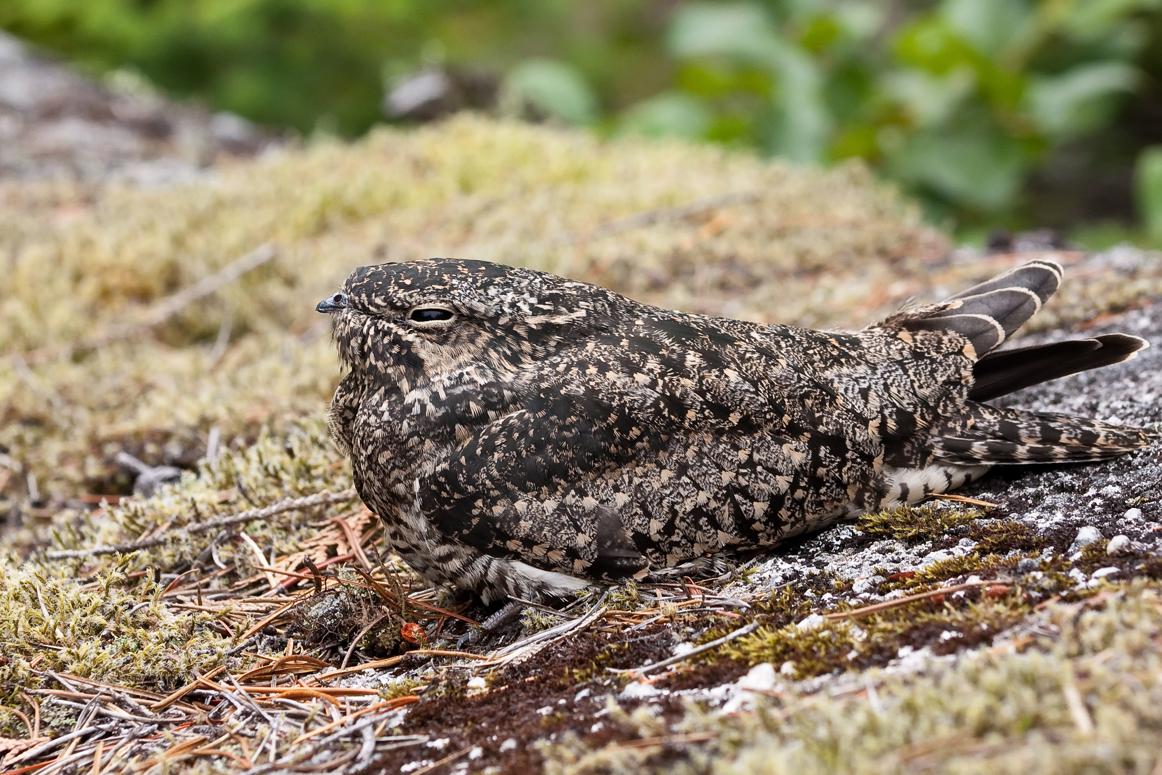 Common Nighthawk at Petgill Lake in Squamish, British Columbia, Western Canada.